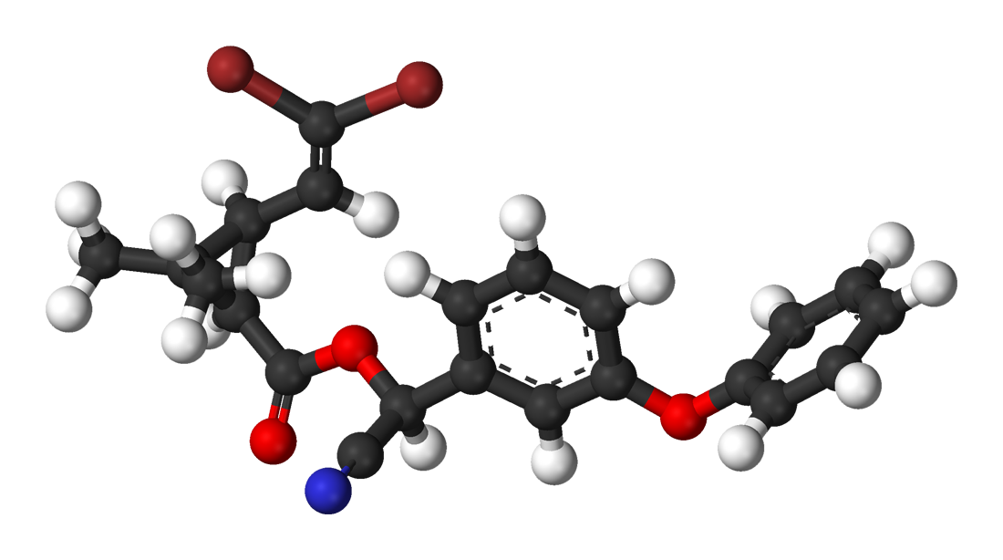 Ball-and-stick model of the deltamethrin molecule, C22H19Br2NO3